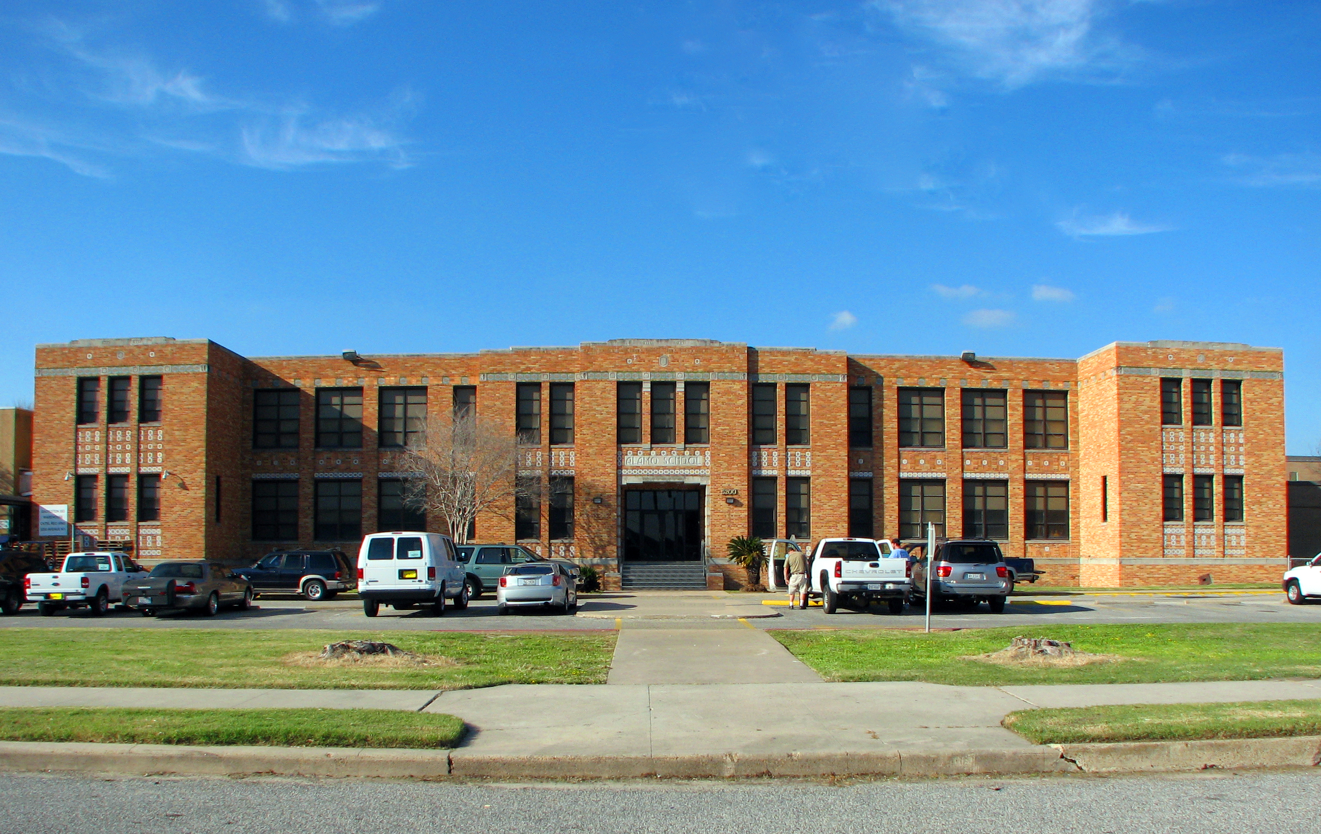 Alamo Elementary School, Galveston, Texas -- Post Hurricane Ike